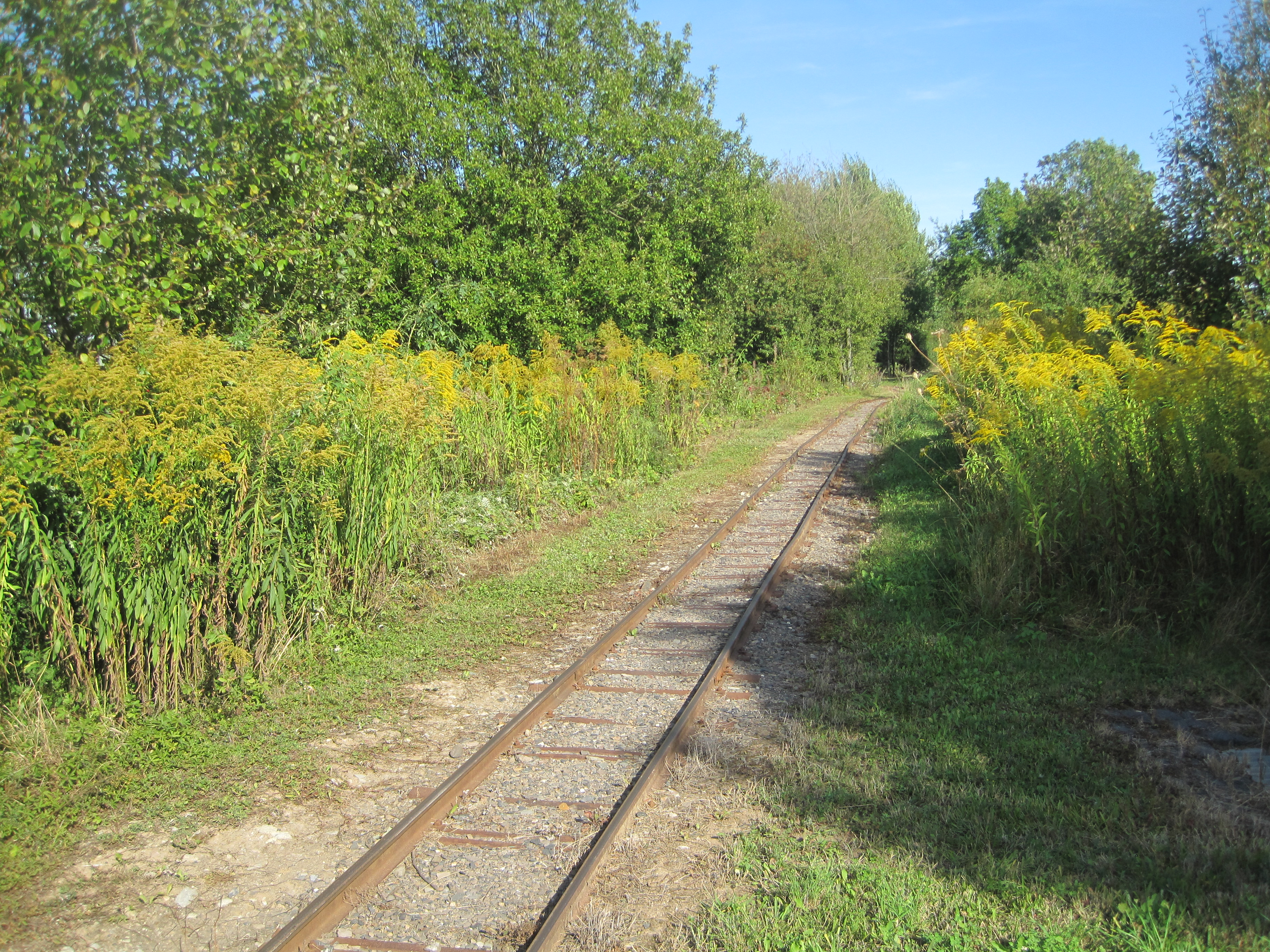 Track of Eichenberger Waldbahn, Neu-Eichenberg, Germany check usage